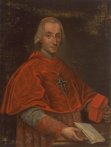 Giovanni Archinto, cardinal of the Roman Catholic Church